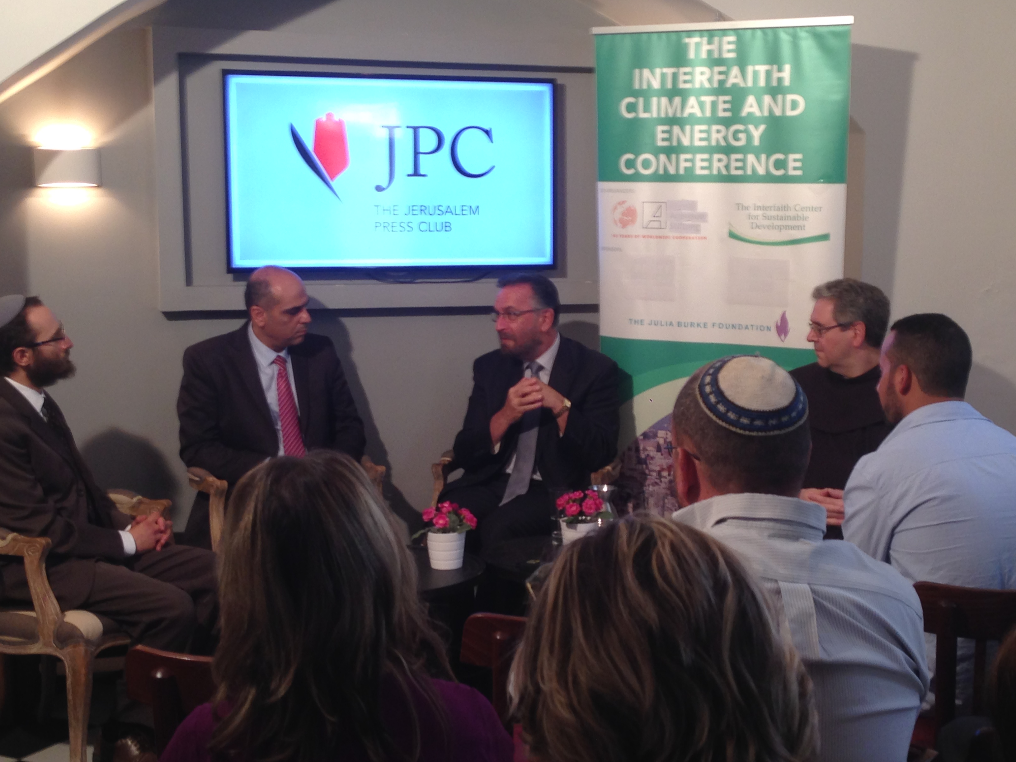 Press Conference held on Jerusalem, on July 26, 2017, in which three religious figures spoke on the need to unite, in spite of any religious difference, to work together so as to curb climate change.